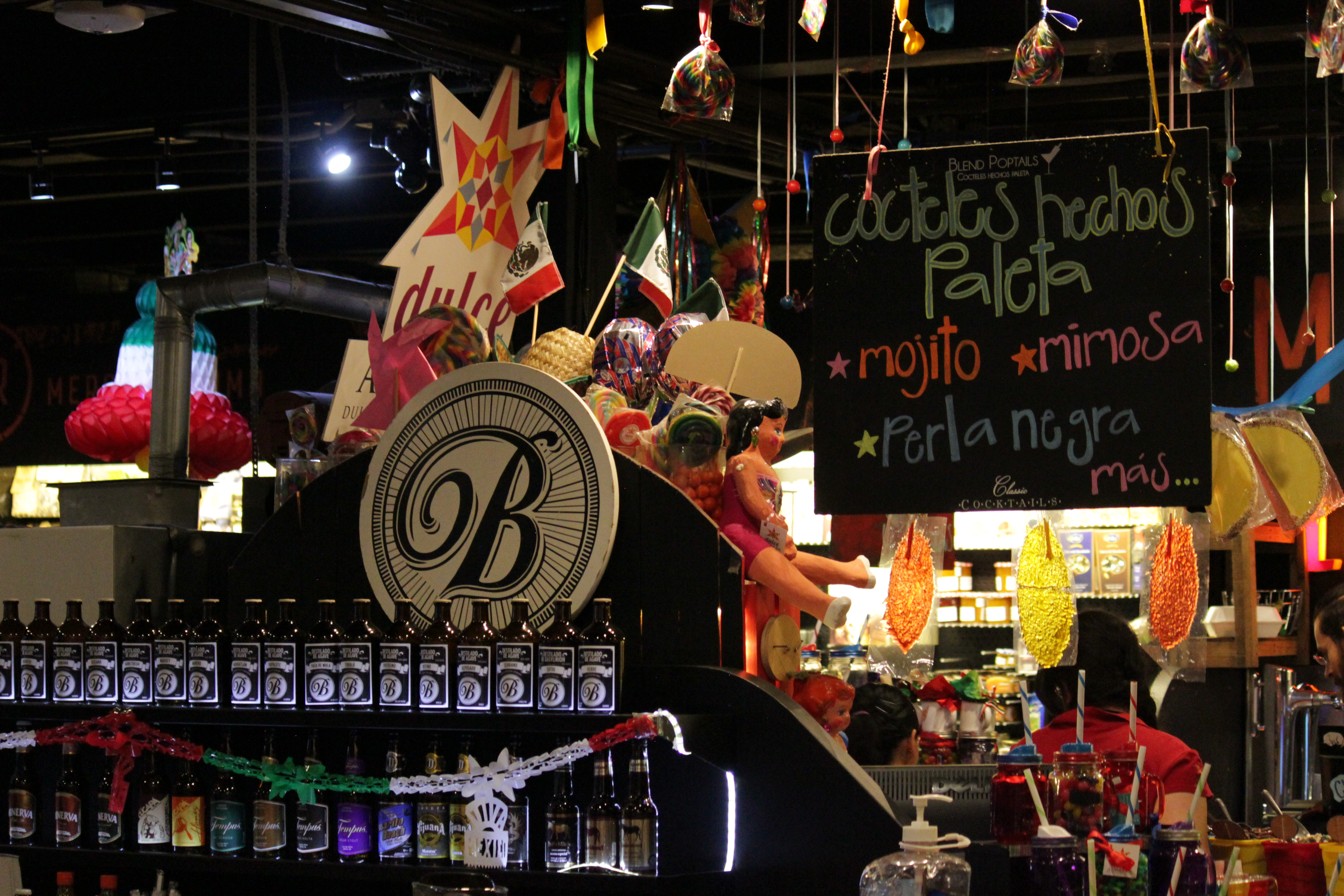 Craft beer local in Mercado Roma located in Col. Roma, Mexico City